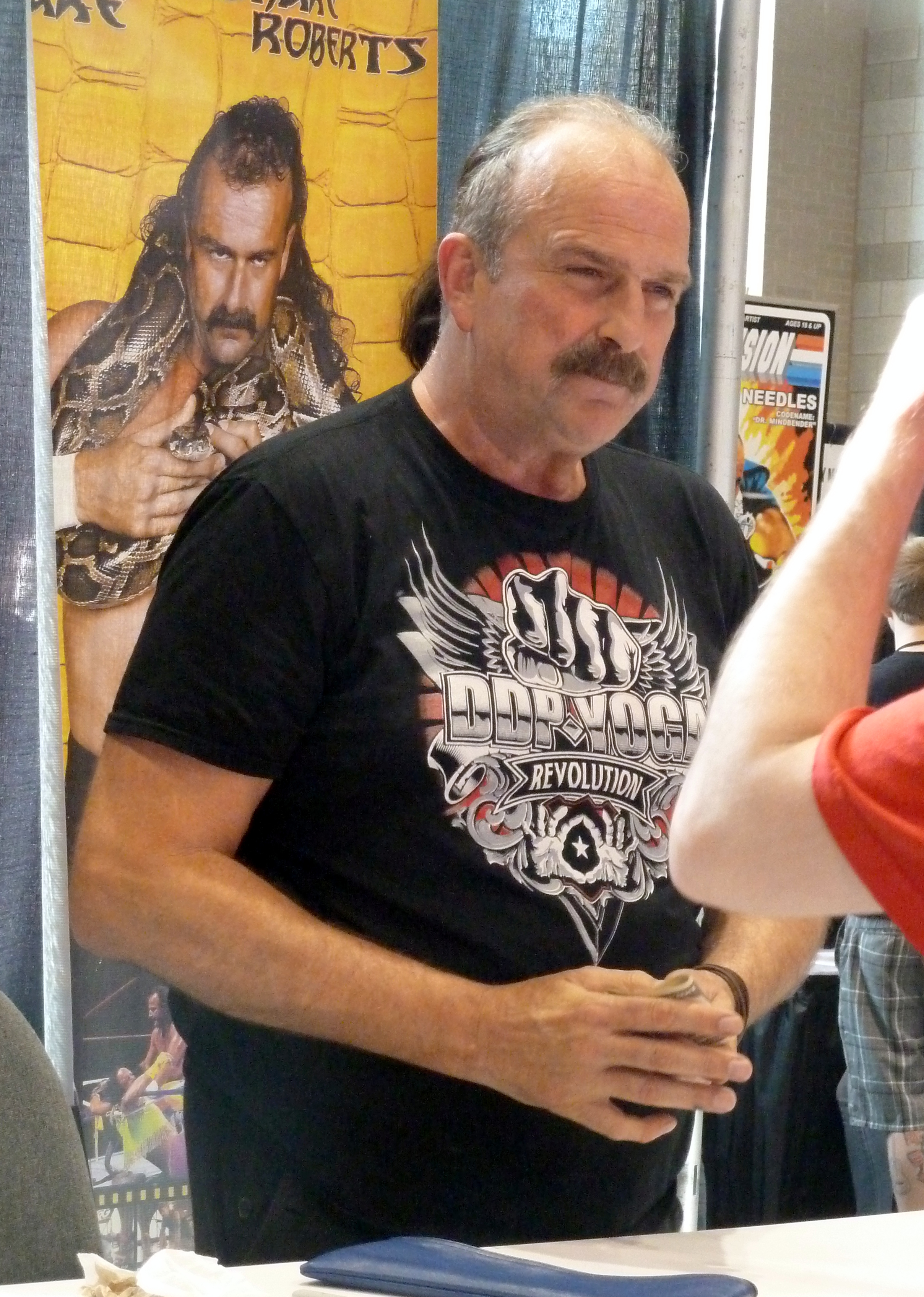 wrestling legend Jake Roberts at Chicago Comic & Entertainment Expo 2013